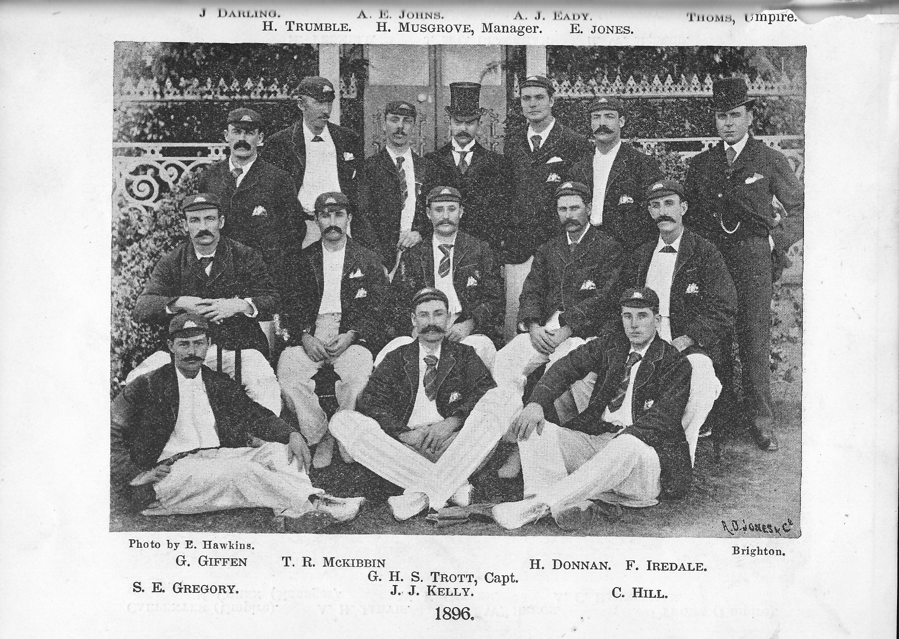 A scan of the Australia national cricket team of 1896. Back row (l-r) Joe Darling, Hugh Trumble, Alfred Johns, Henry Musgrove (Manager), Charles Eady, Ernie Jones, Bob Thoms (Umpire). Middle row (l-r) George Giffen, Tom McKibbin, Harry Trott (Captain), Harry Donnan, Frank Iredale. Front row (l-r) Syd Gregory, Jim Kelly, Clem Hill